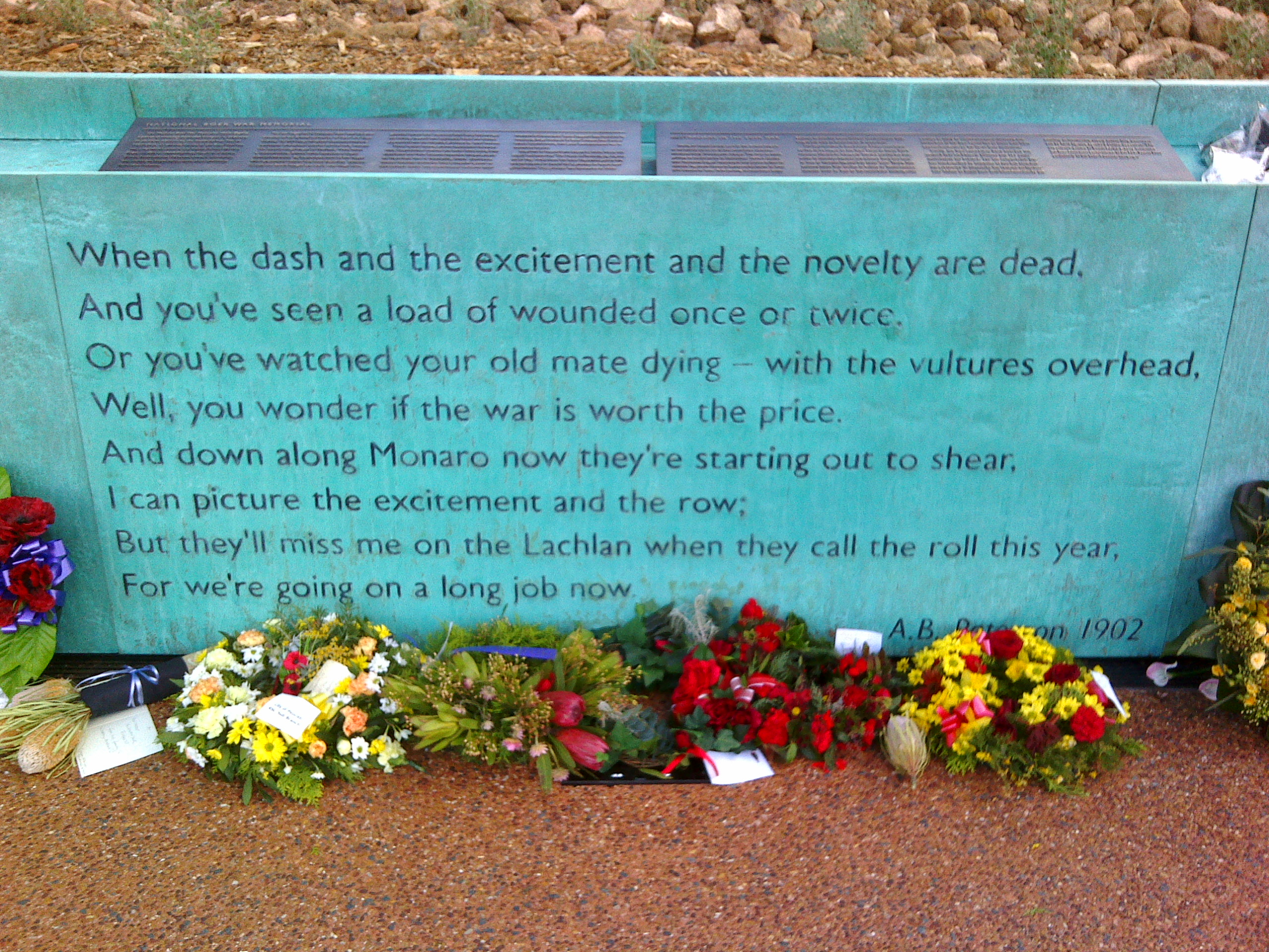 Boer War Memorial, Canberra horses and riders. Dedicated 31 May 2017 by the Governor General of Australia, General Sir Peter Cosgrove.